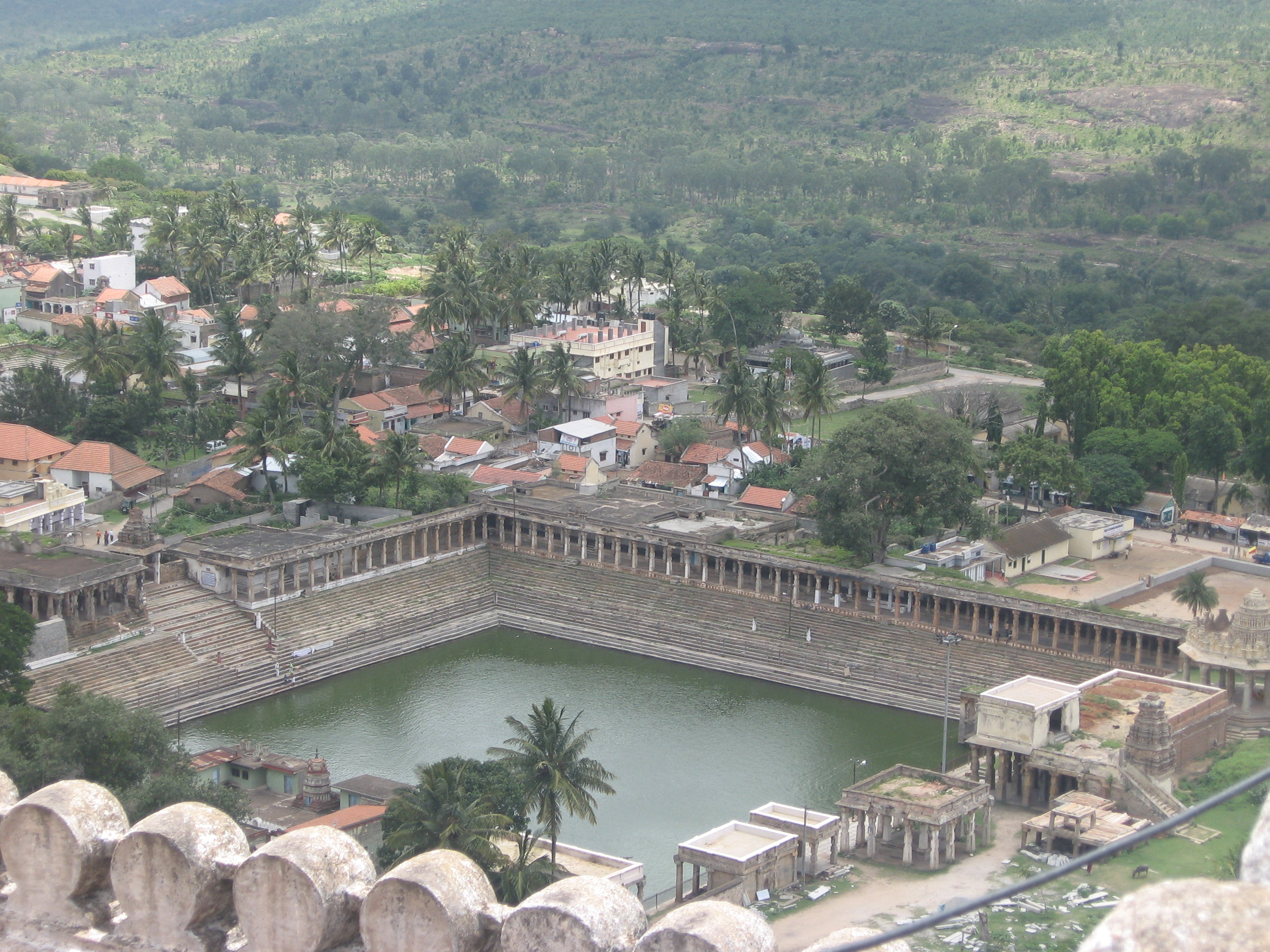 Pushkarani at Melukote